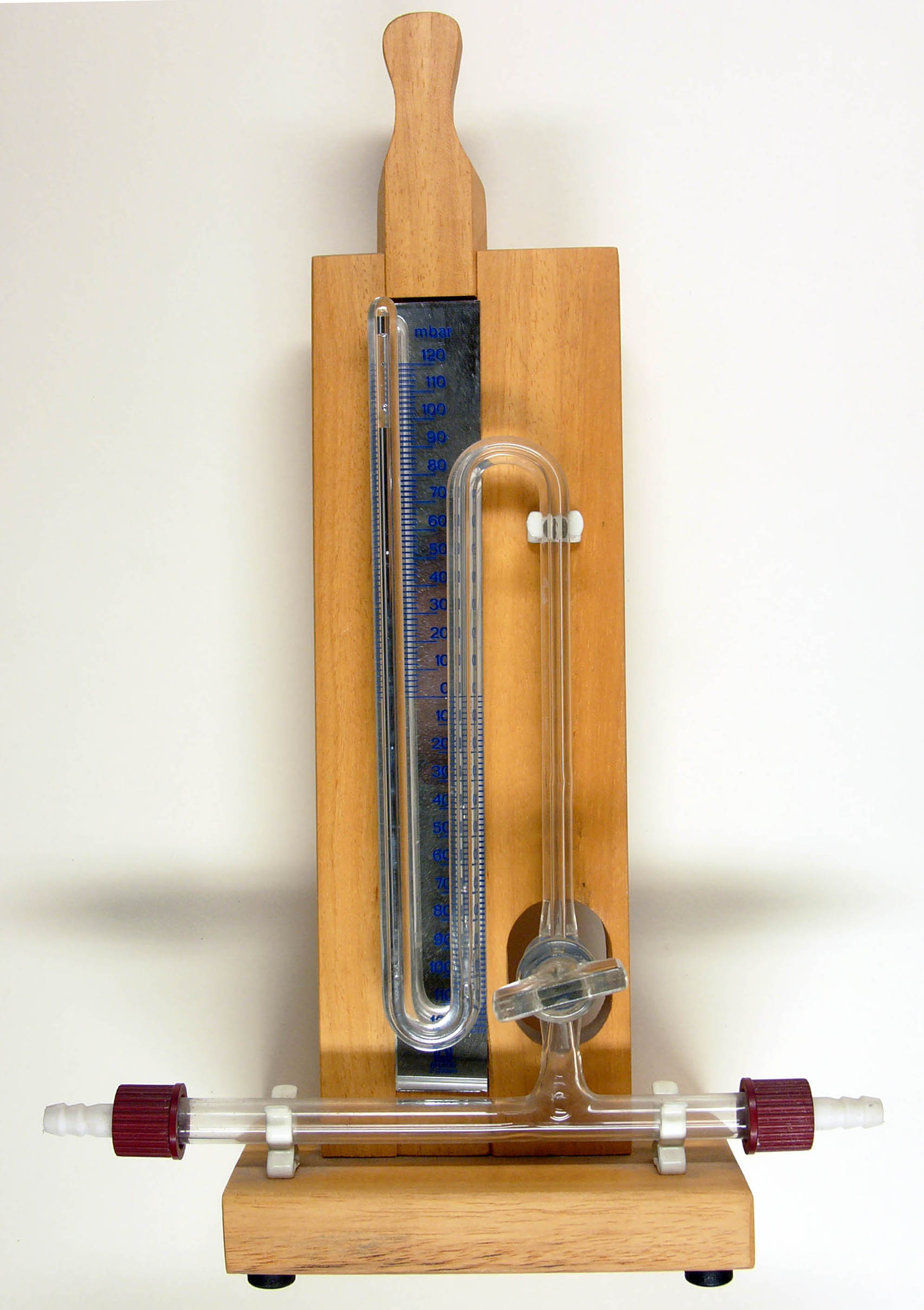 Manometer (with mercury column), after Bennert, scale 2-180 mbar, with ajustable mirror scale on wood base